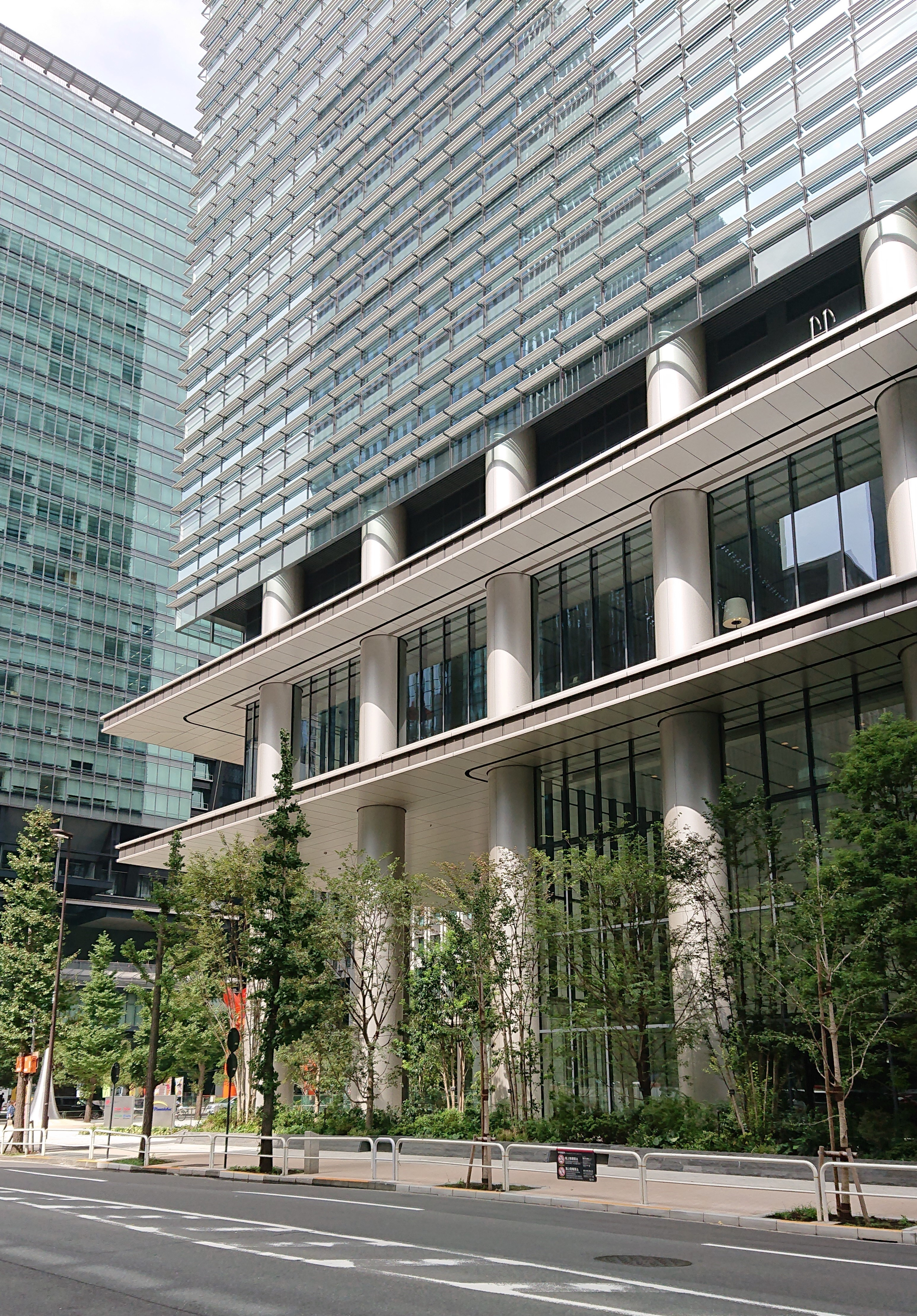 Otemachi PLACE